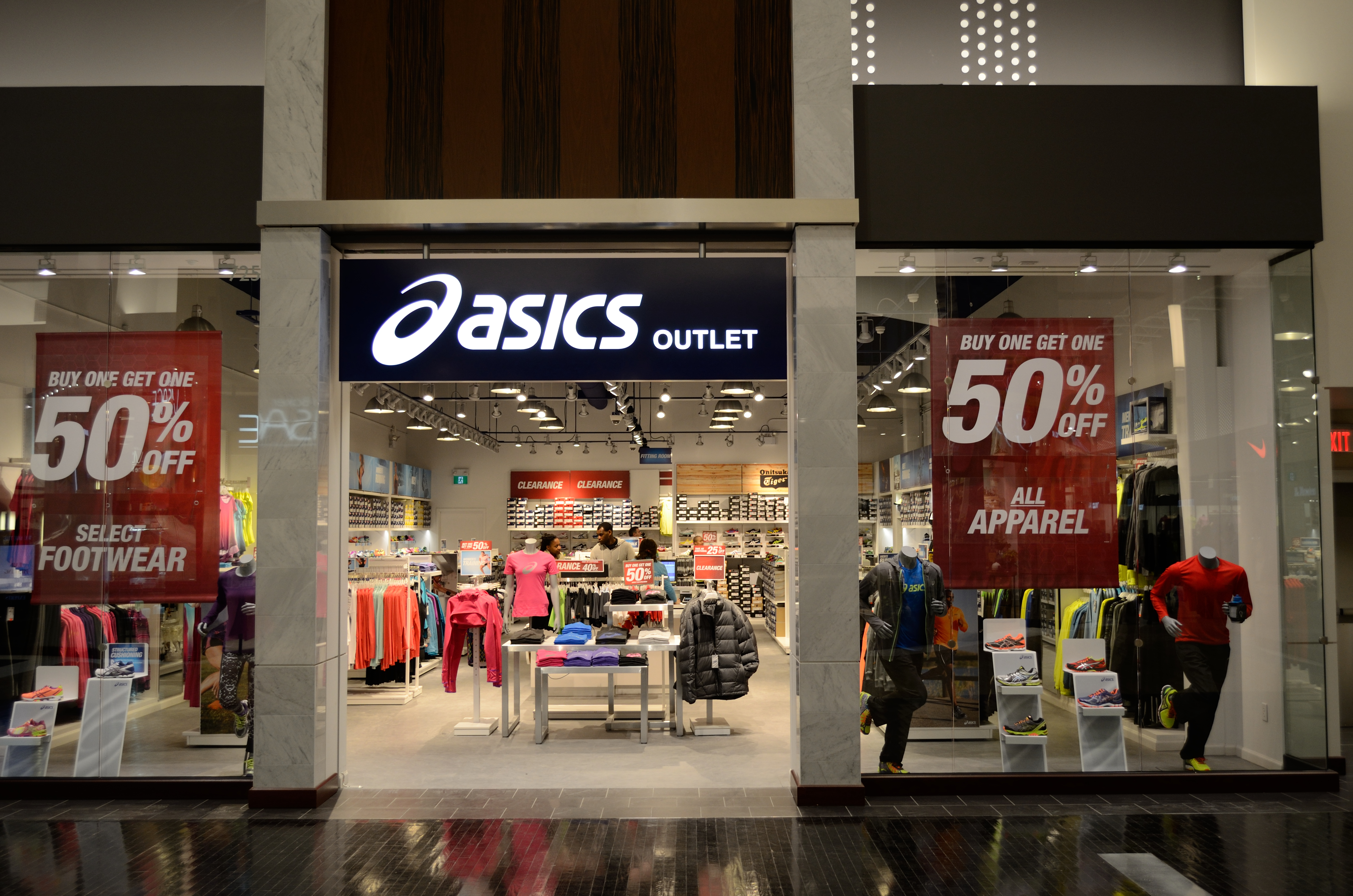 ASICS at Vaughan Mills